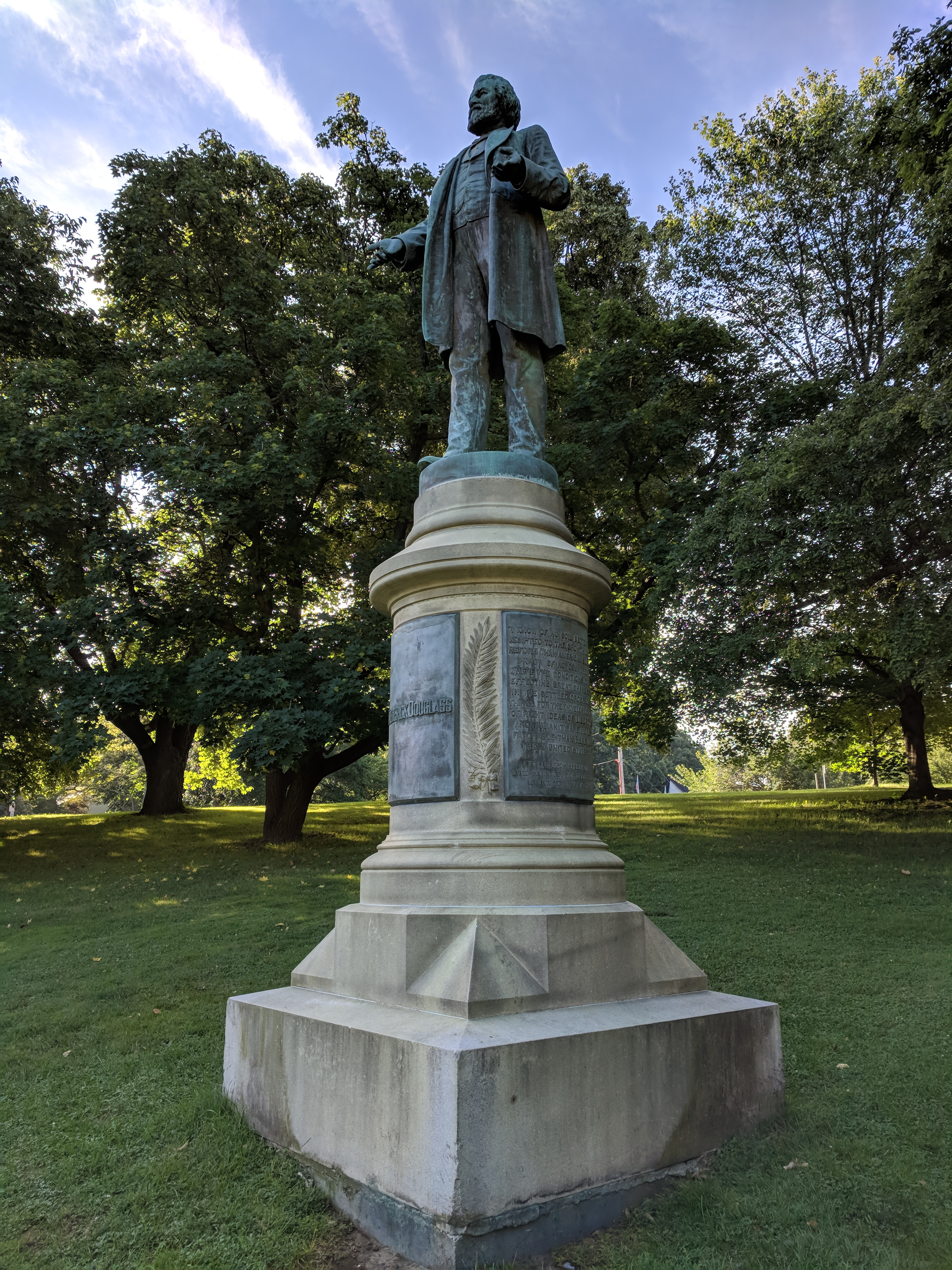 Statue of Frederick Douglass in Highland Park (Rochester, New York)